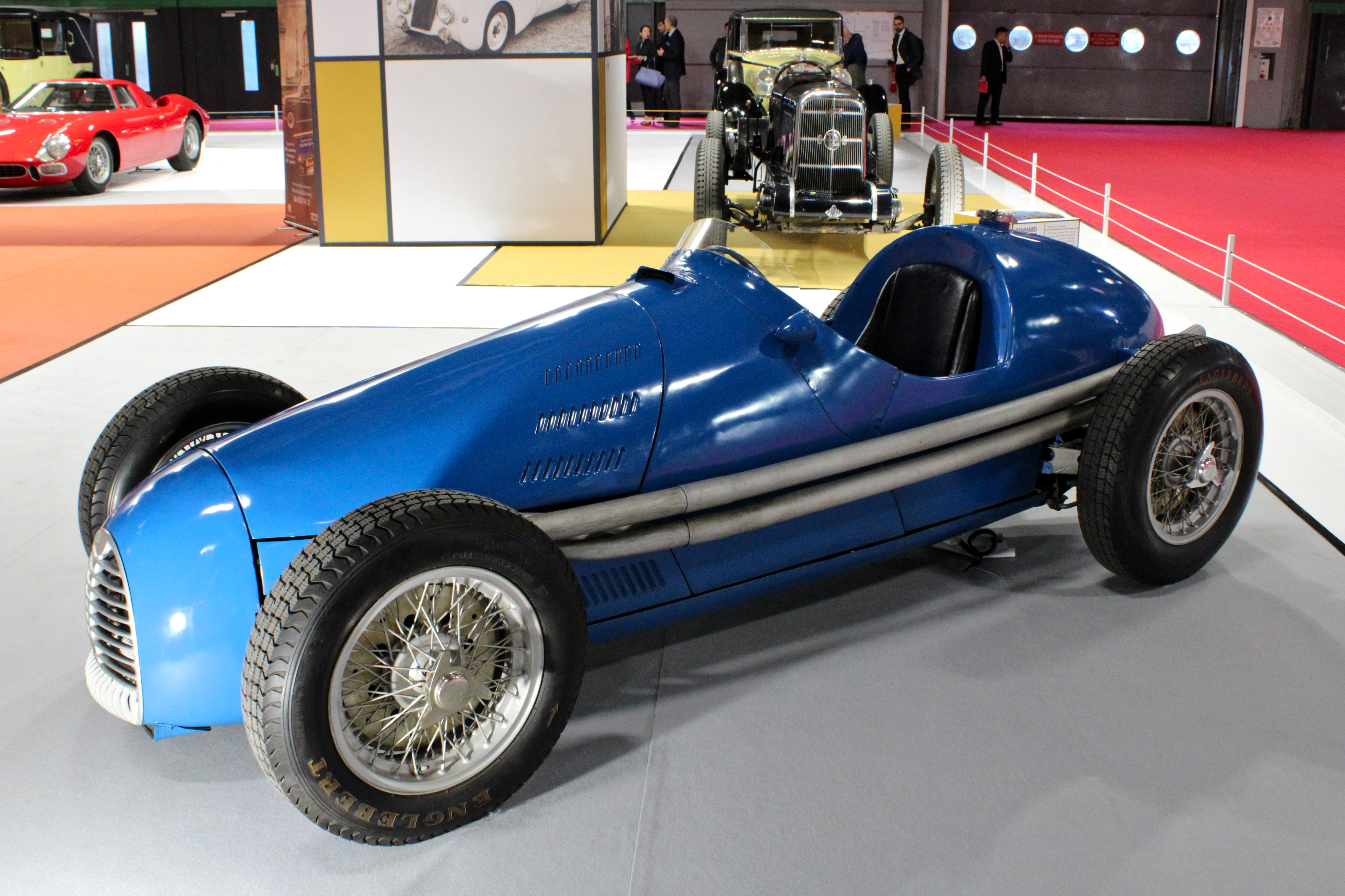 Gordini Type 16 (1952) at Paris Motor Show 2018